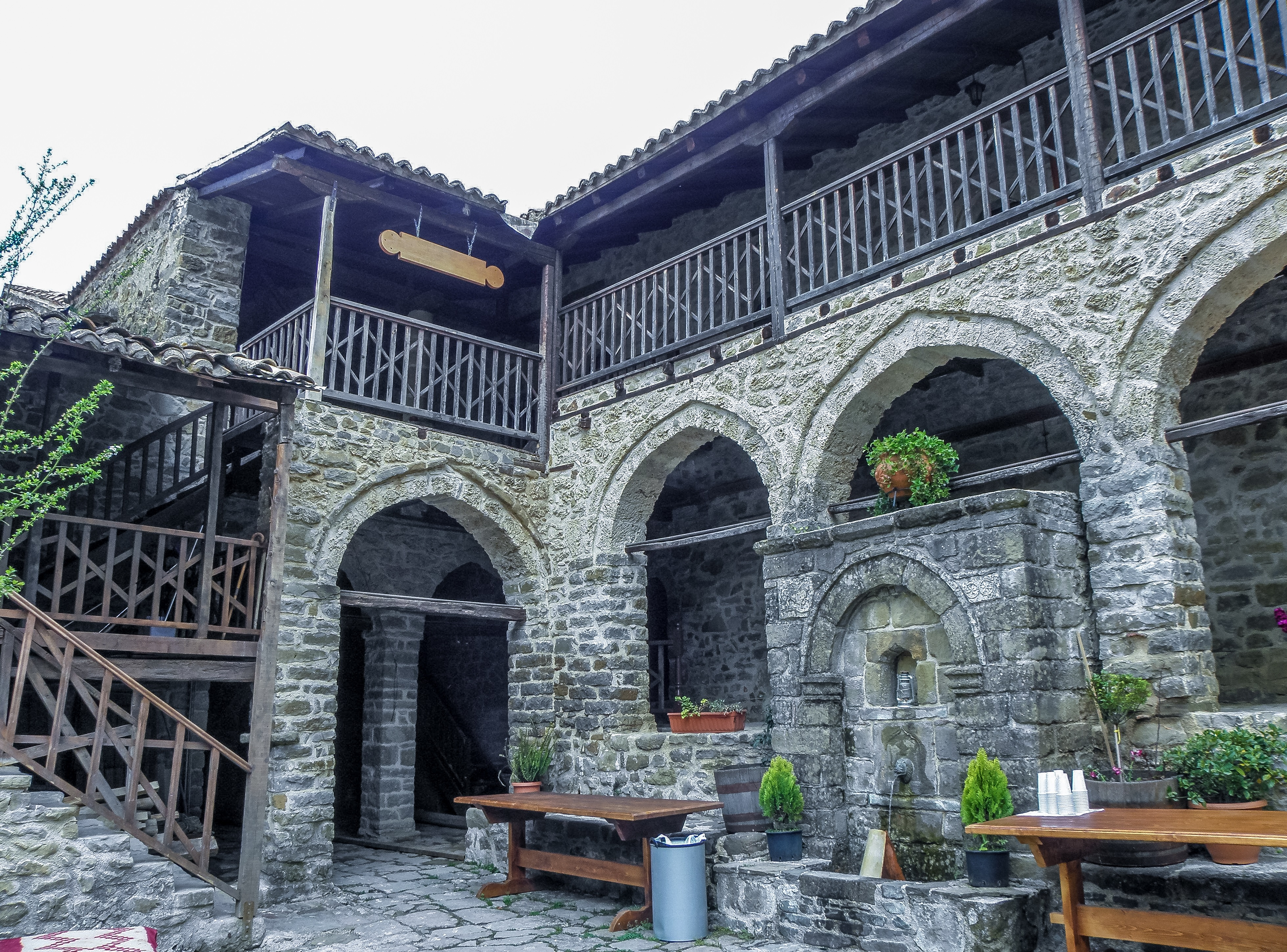 Agioi Pandes (All Saints) Monastery, Velimachi, Achaia, Greece. View from its patio.